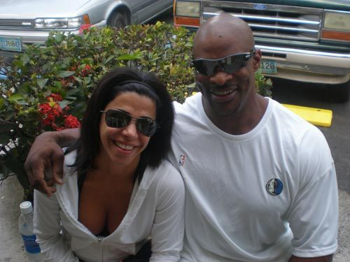 Ronnie Coleman and his wife, Lebanese French personal trainer Rouaida Christine Achkar in 2009